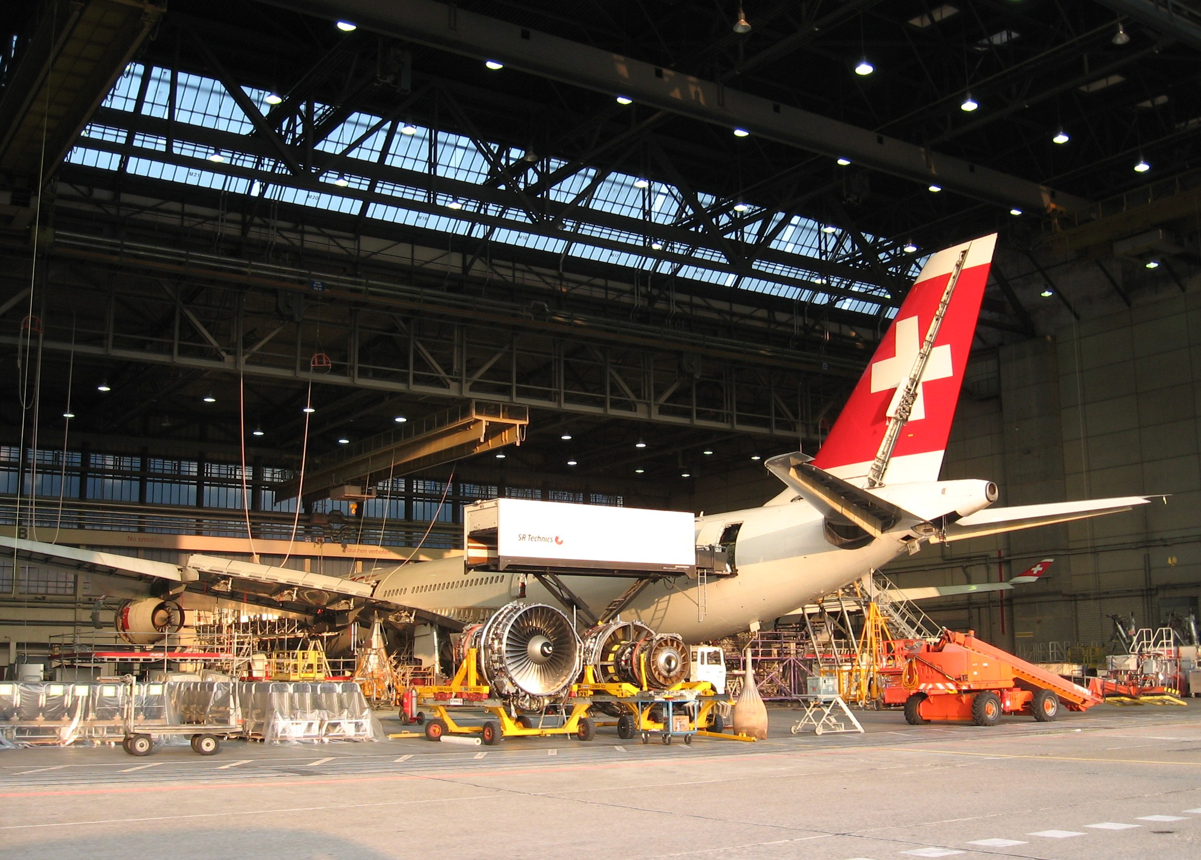 C-Check at the technical department at Zurich Airport